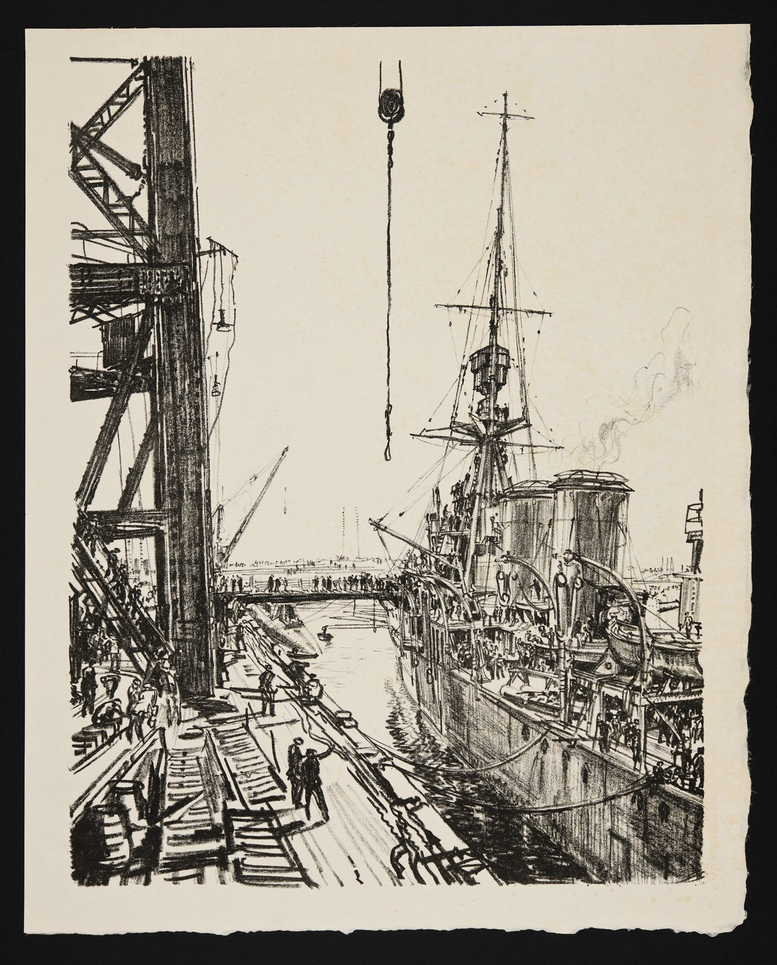 Ready for Sea.